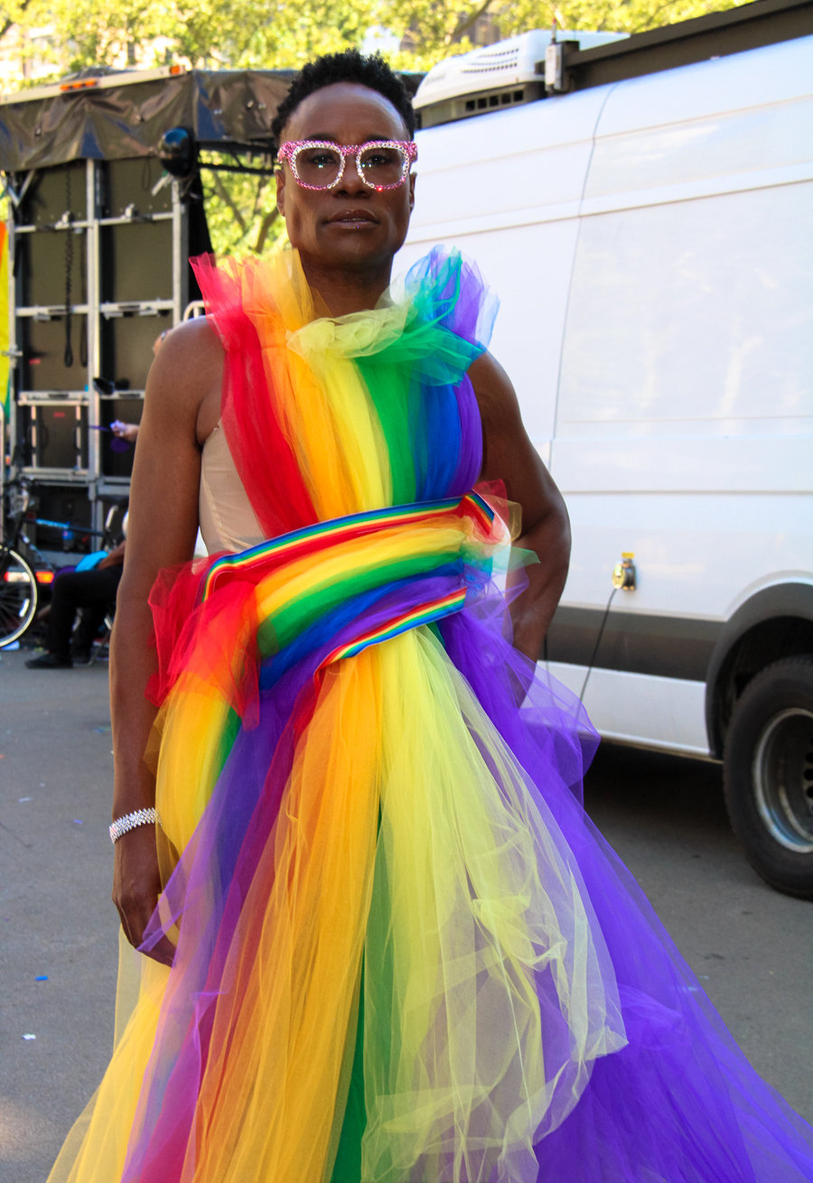 New York Pride 50 - 2019-1171